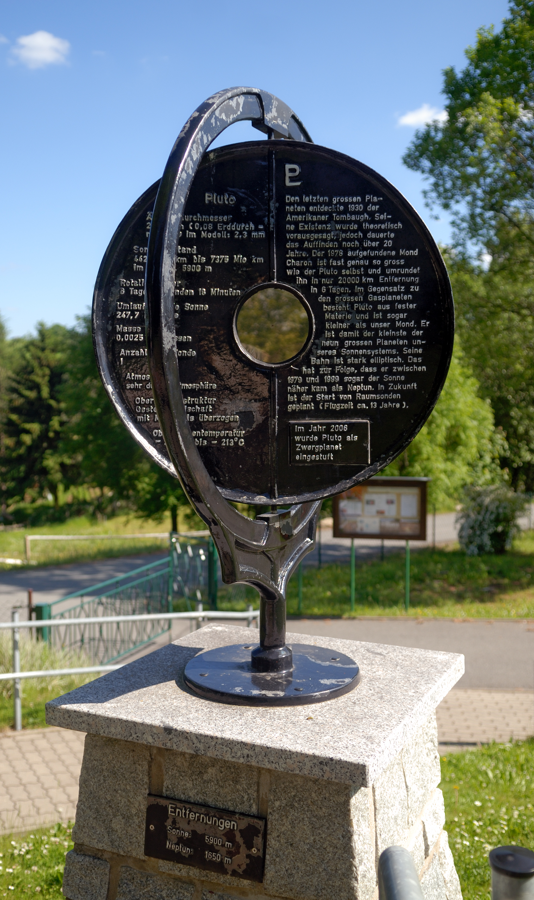 This image shows the sign for Pluto at the planet hiking trail near the observatory in Drebach, Saxony, Germany.